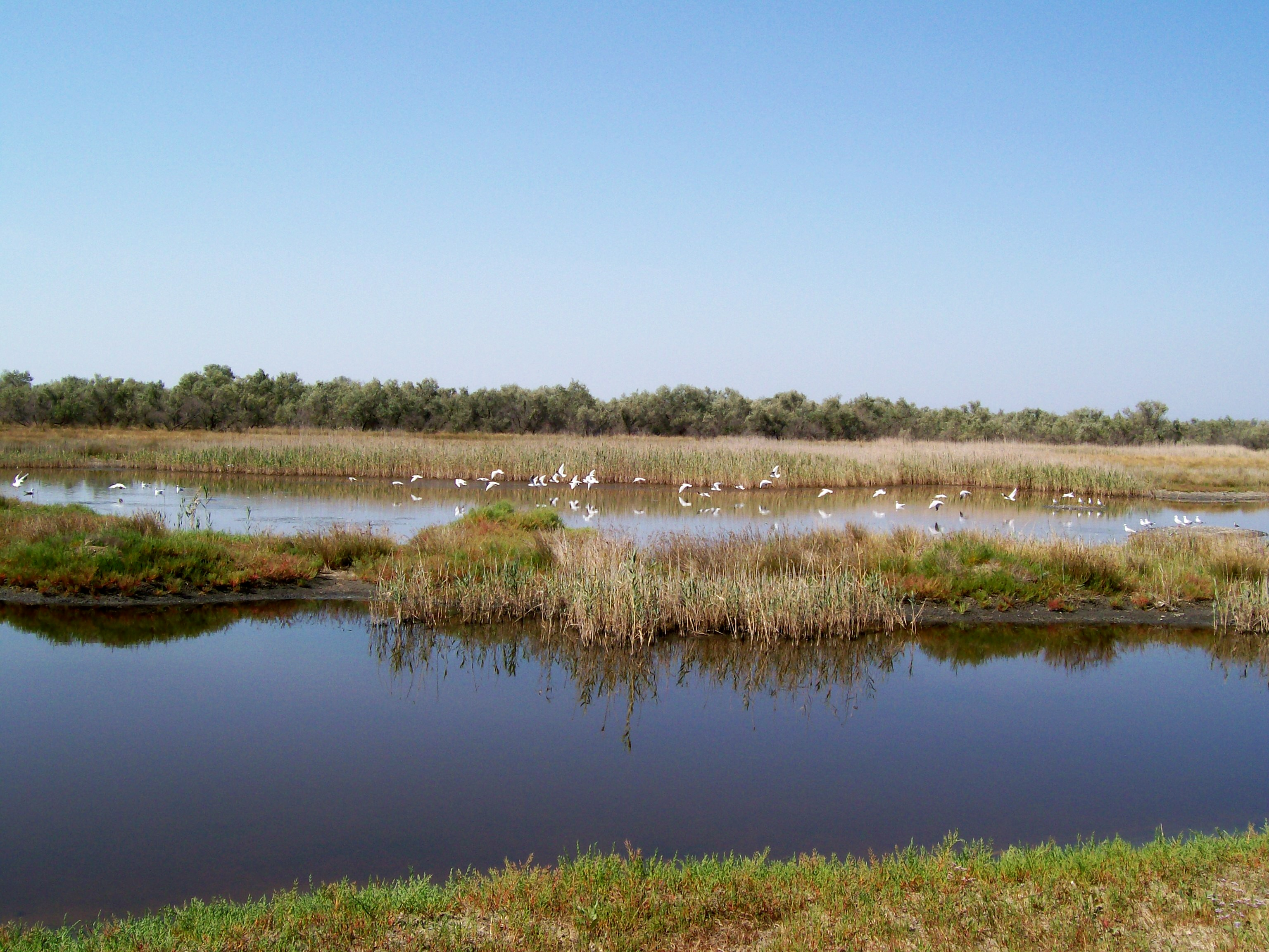 Tuzla Island, inland lakes, august 2007